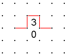 A 3 adjacent to a 0 allows five lines to be filled.